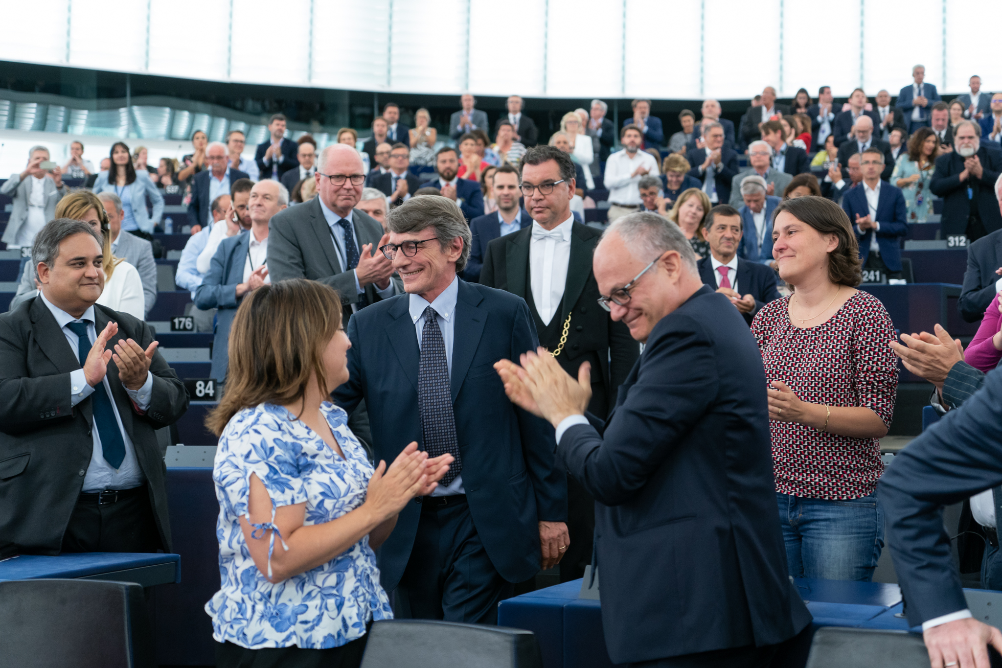 This photo is free to use under Creative Commons license CC-BY-4.0 and must be credited: "CC-BY-4.0: © European Union 2019 – Source: EP". No model release form if applicable. For bigger HR files please contact: webcom-flickr(AT)